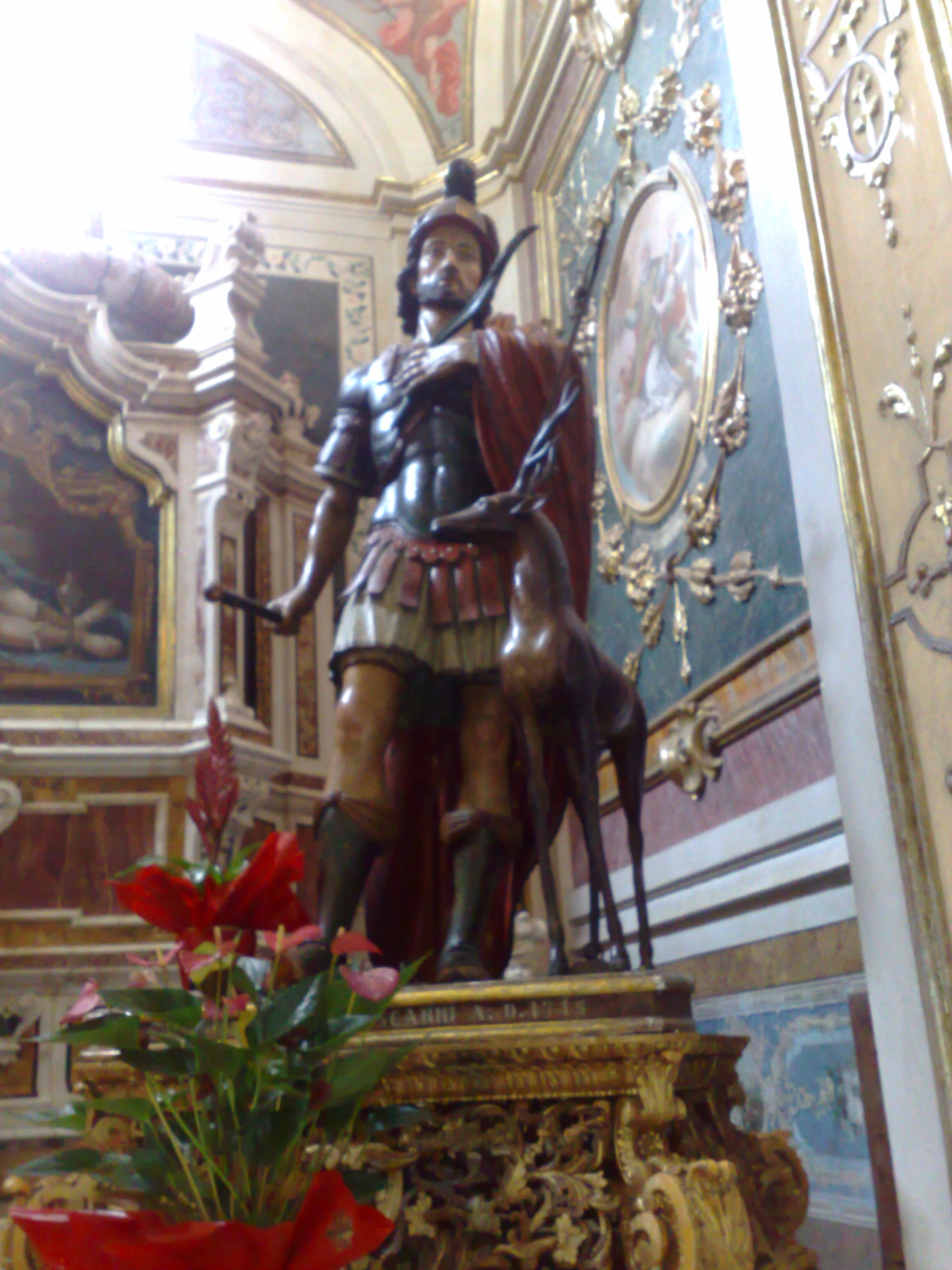 Saint Eustace in Scanno